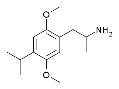 Structure of DOIP